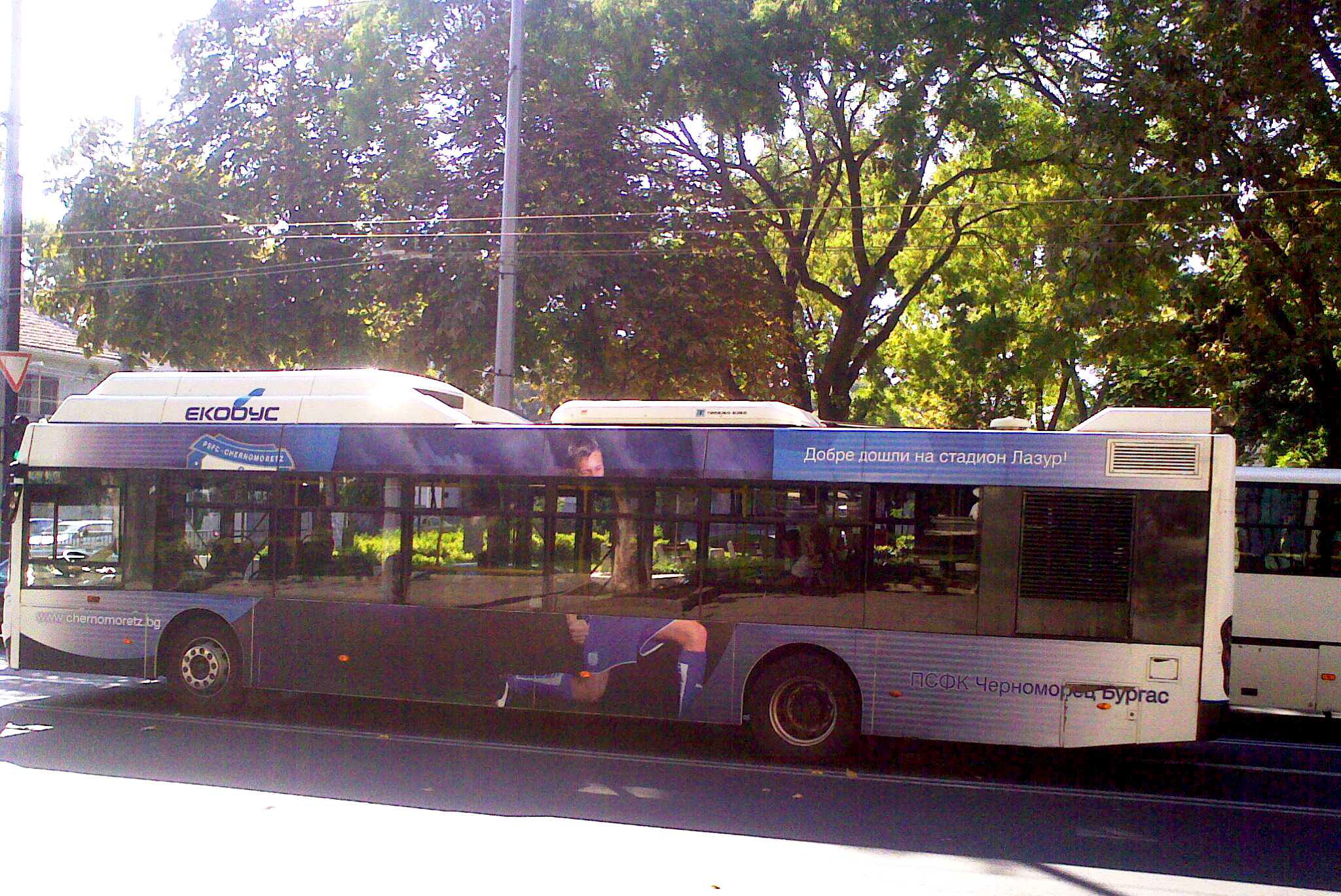 Tedom C12G bus in Burgas, Bulgaria. Built 2008, Burgasbus (Бургасбуc ЕООД) operator.